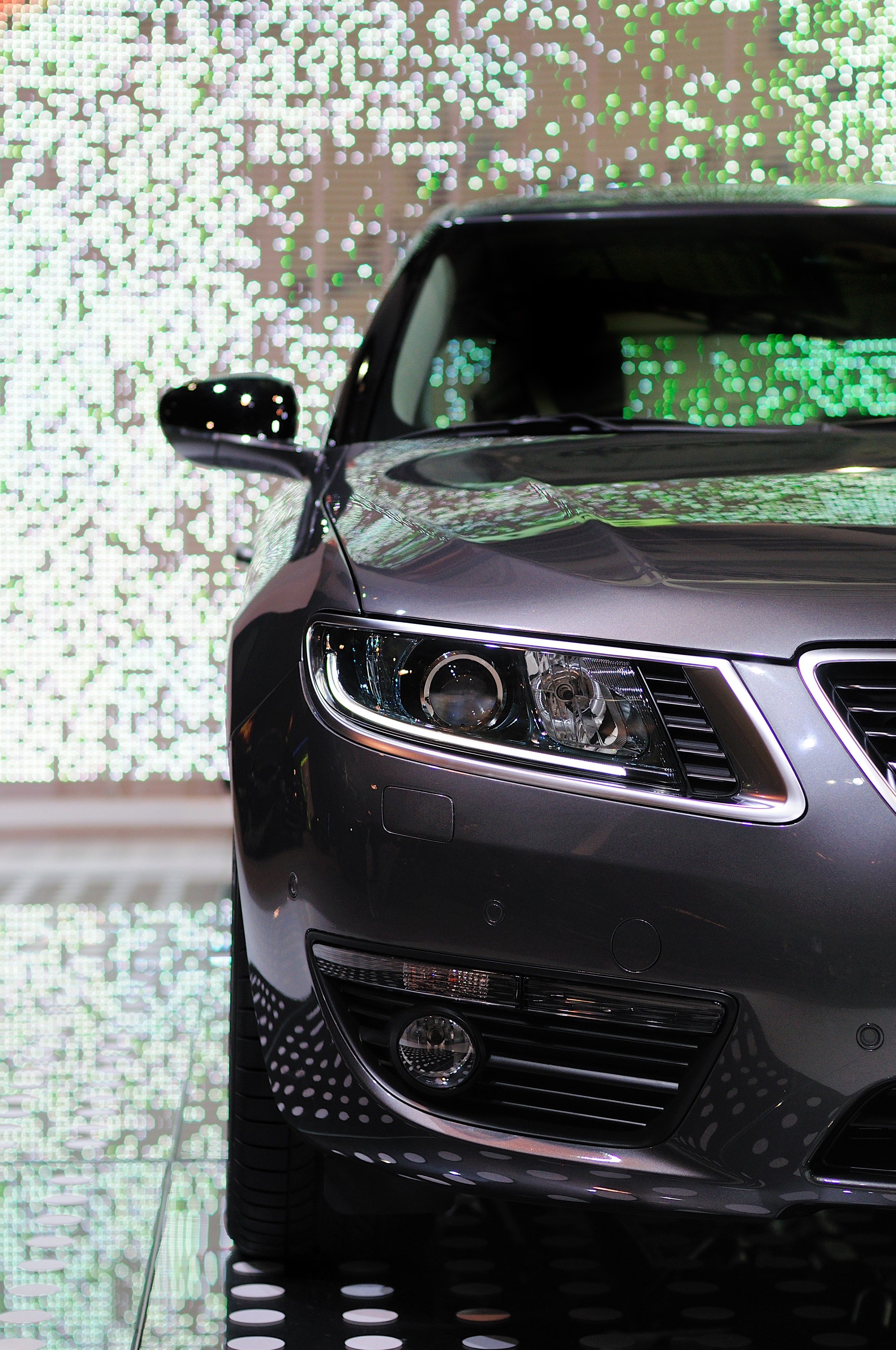 2010 Saab 9-5 at Boston Auto Show 2009